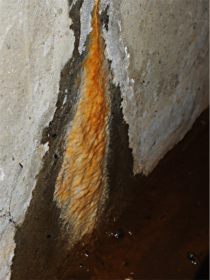 Calthemite flowstone with Iron Oxide deposited along with calcium carbonate (CaCO3). A secondary deposit derived from concrete.